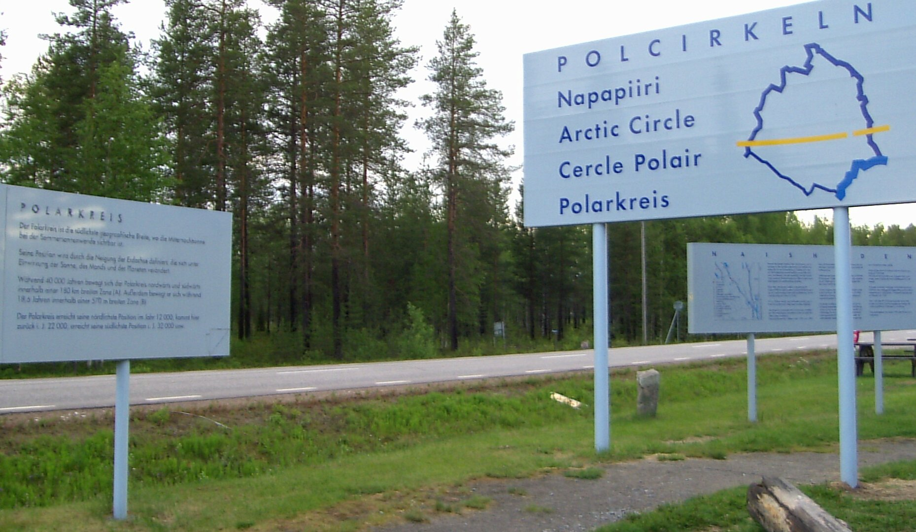 Arctic Circle, Överkalix Municipality, Sweden